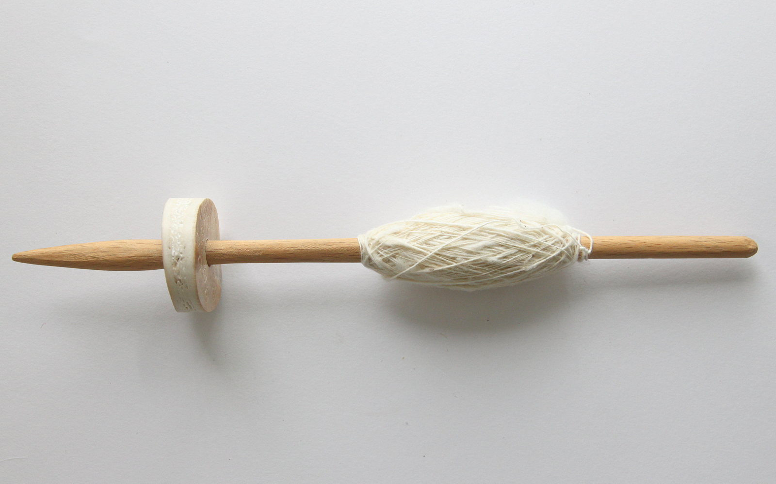 Early middle ages drop spindle replica with fine yarn Holland